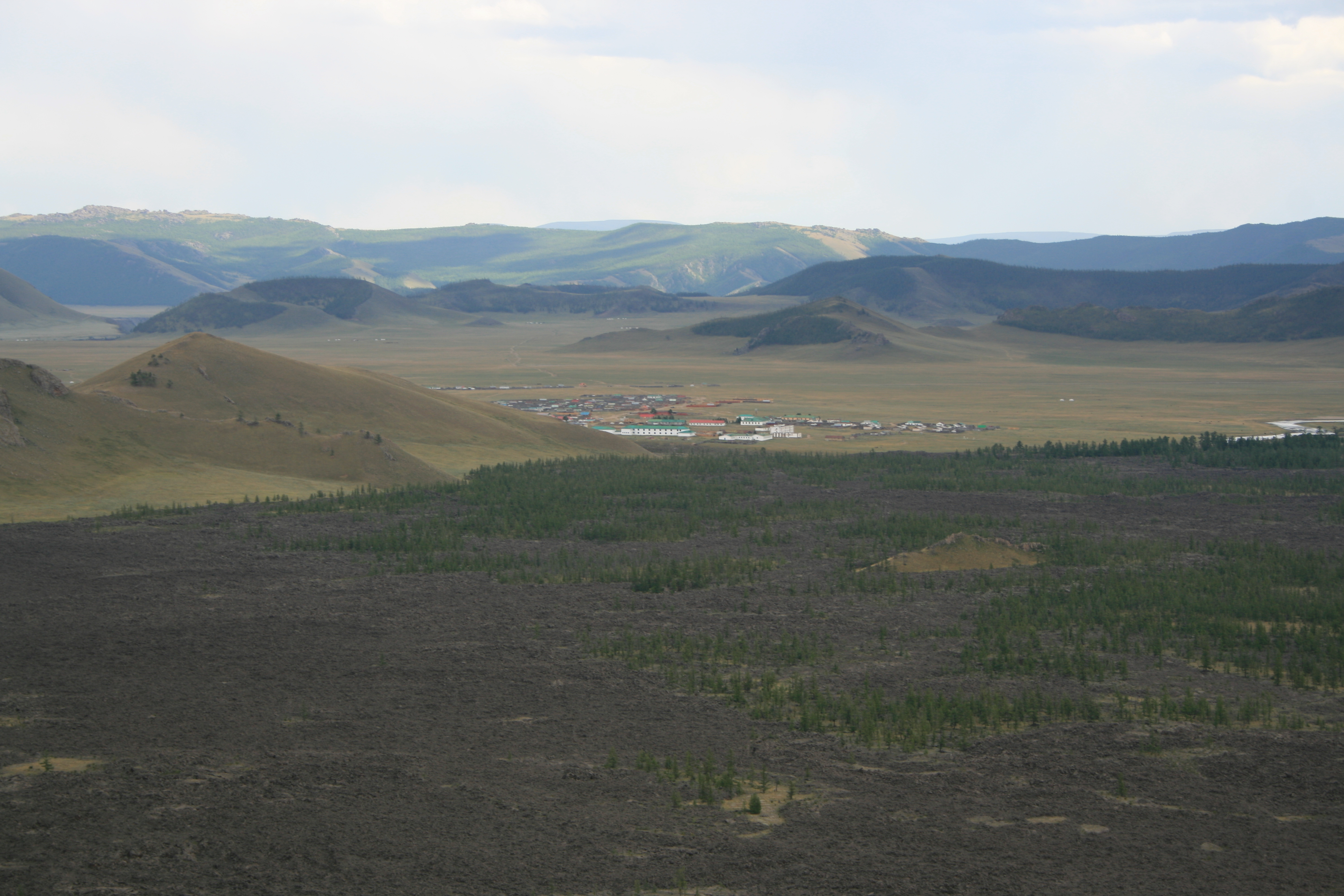 Tariat sum center, Arhangai, Mongolia. Picture taken from the Horgo crater